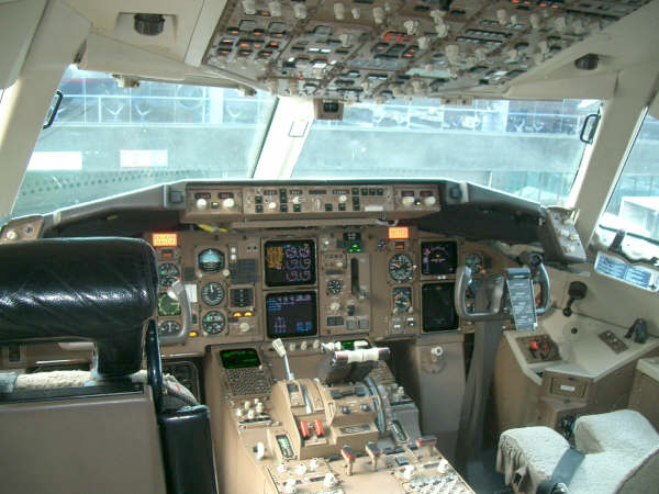 AeroMexico Boeing 767-300/ER Cockpit